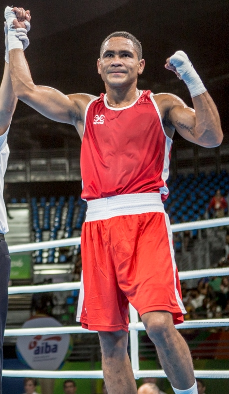 Day 3 at the 2016 Summer Olympics. Boxing 69 kg. Round of 32, Gabriel Maestre (Venezuela) vs Arajik Marutjan (Germany)